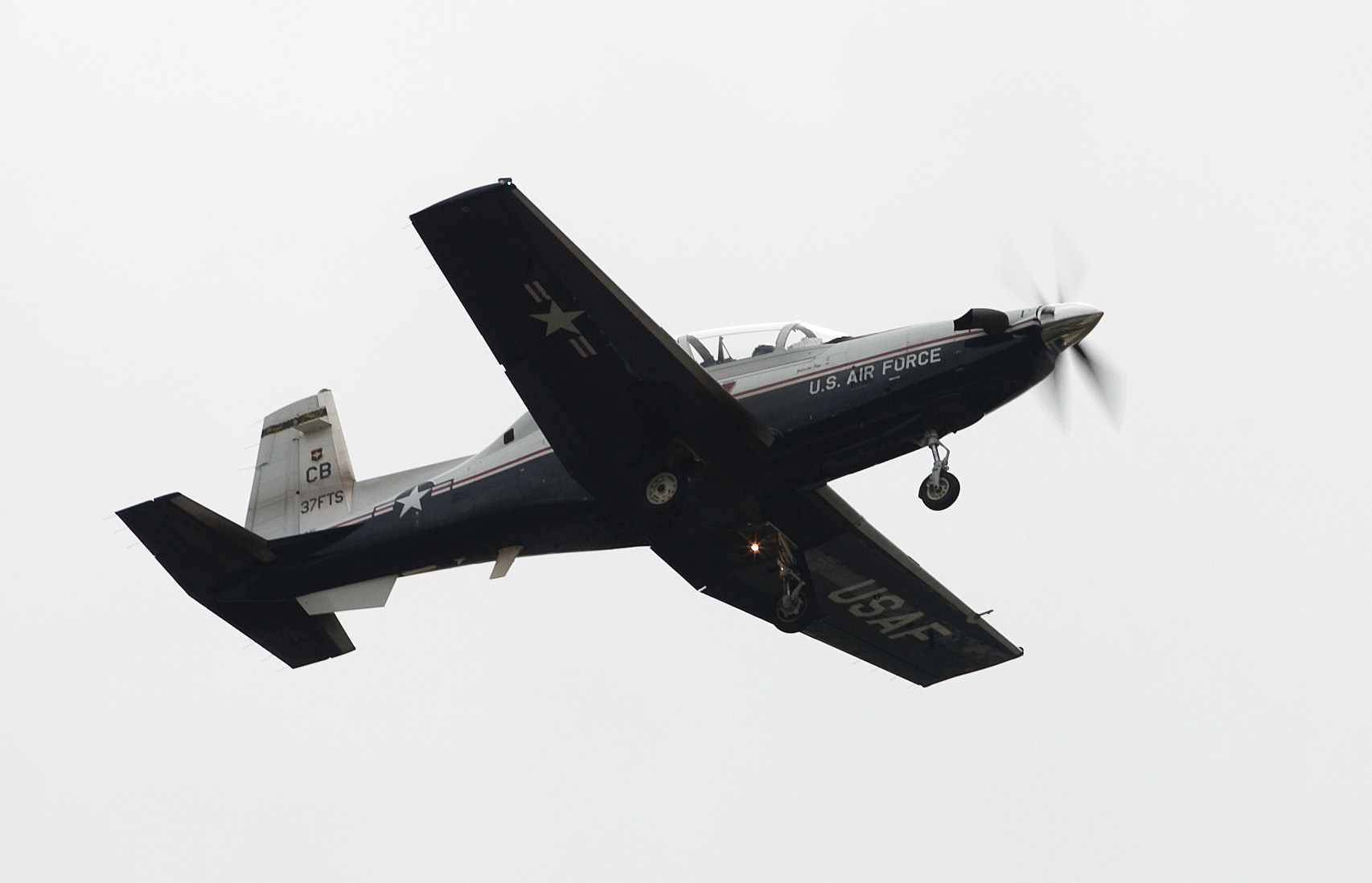 Weather still doesn't want to be nice, but here's a T-6 Texan II doing a few passes. :)